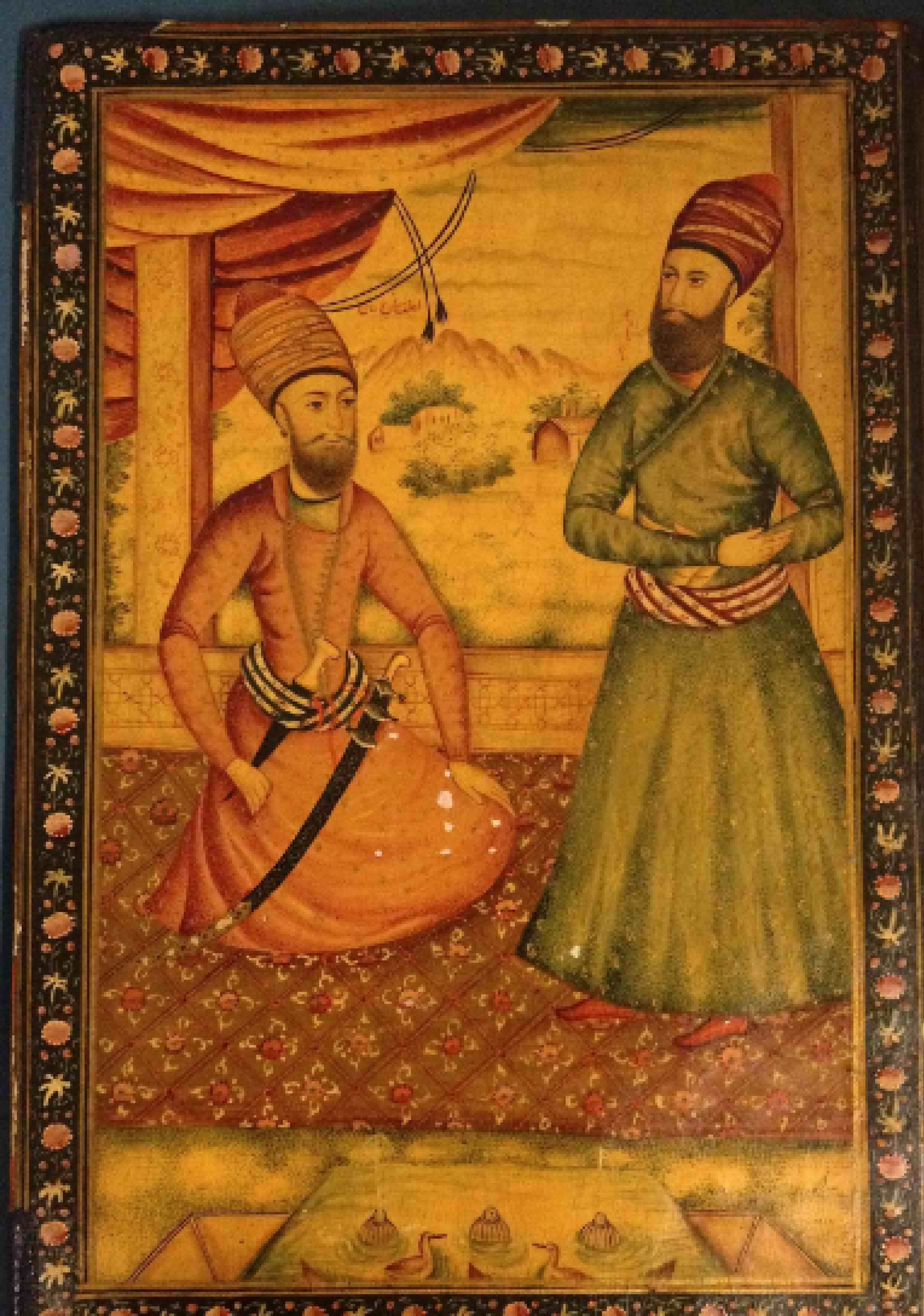 The 2 standing beside each other in this persian miniature found at a museum